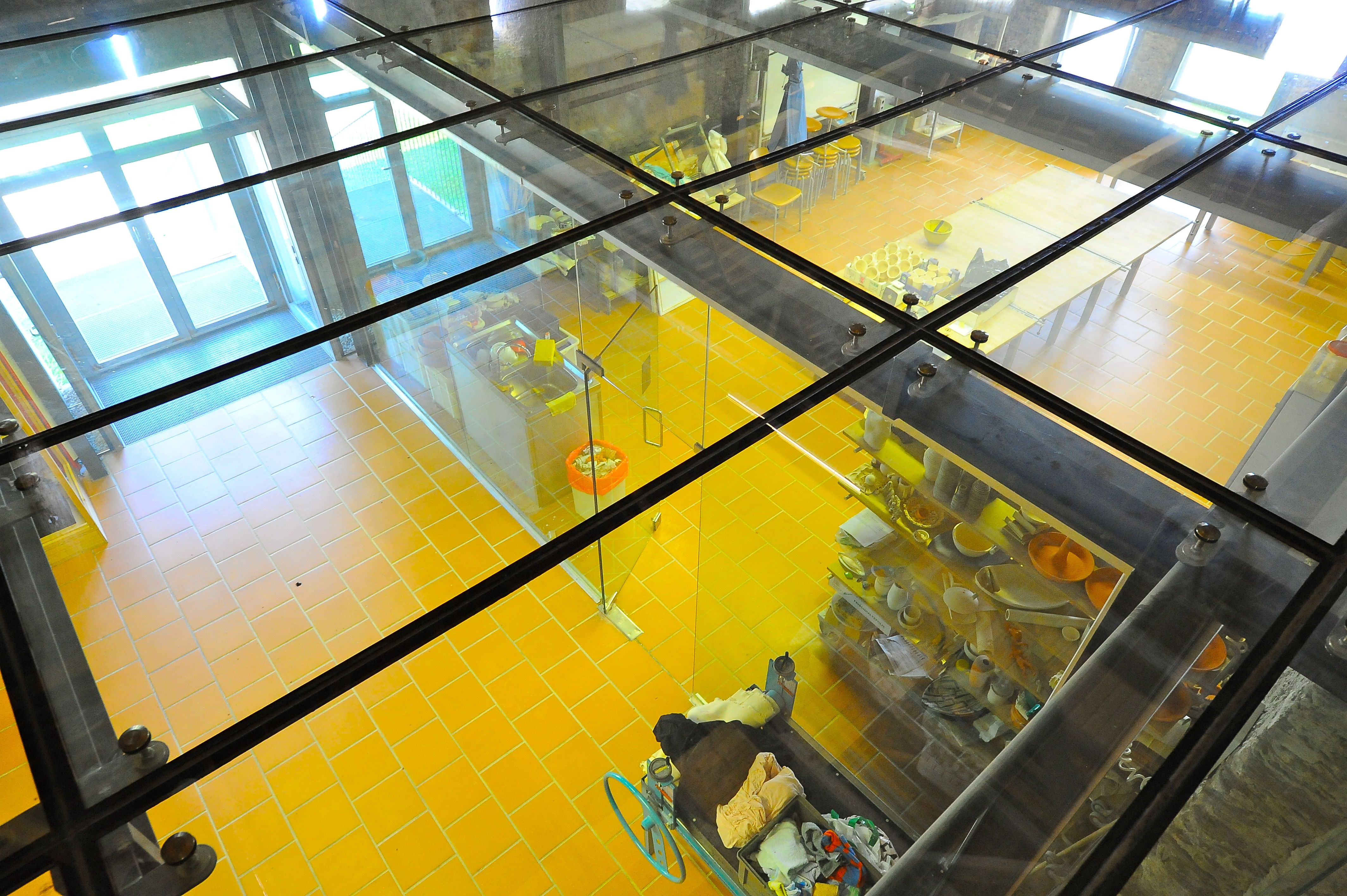 View from the attic inside the north west wing of the monastery Viktring grammar school at the ceramic-craft room, part of the monastery Viktring in the 13th district "Viktring" of the Carinthian capital Klagenfurt on the Lake Woerth, Carinthia, Austria